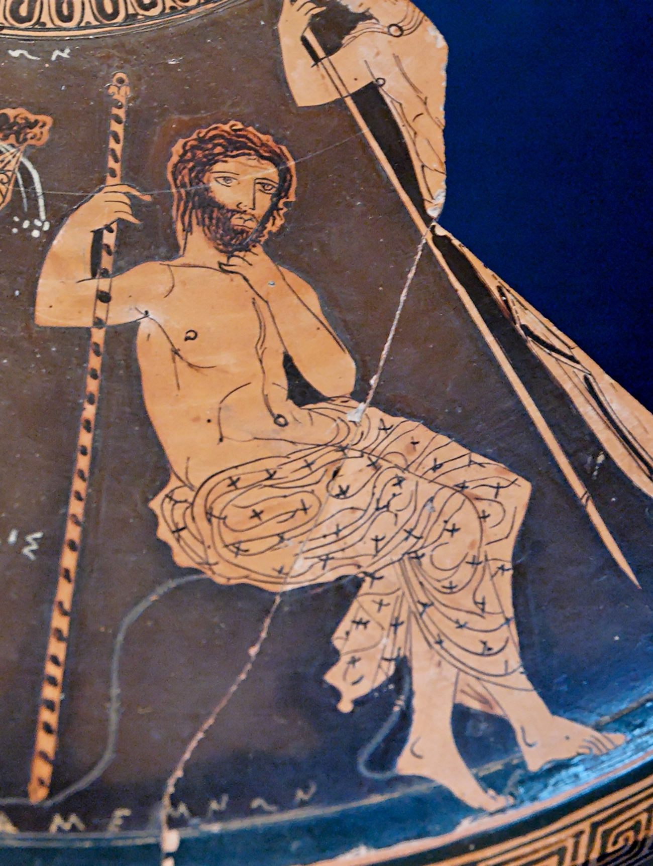 Agamemnon seated on a rock and holding his sceptre, identified from an inscription. Fragment of the lid of an Attic red-figure lekanis by the circle of the Meidias Painter, 410–400 BC. From the contrada Santa Lucia in Taranto. Stored in the Museo Nazionale Archeologico in Taranto (Italy).